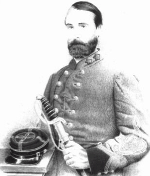 Liet.-Col. Edward Clifford Anderson, Jr. On October 29th, 1864 was appointed Col. of the 7th Georgia Cavalry